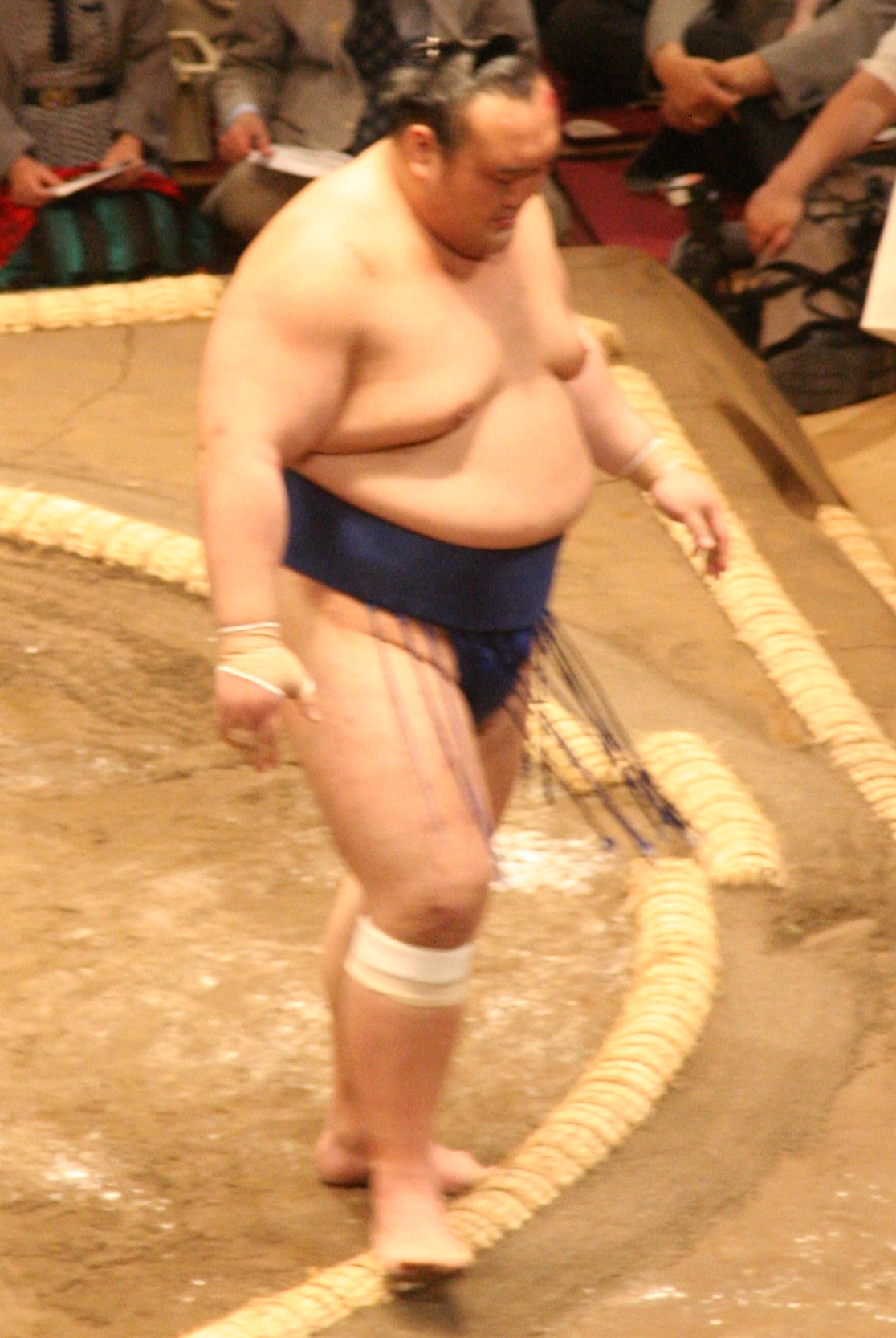 First day of 2009 May Sumo Tournament in Tokyo, Japan - Iwakiyama